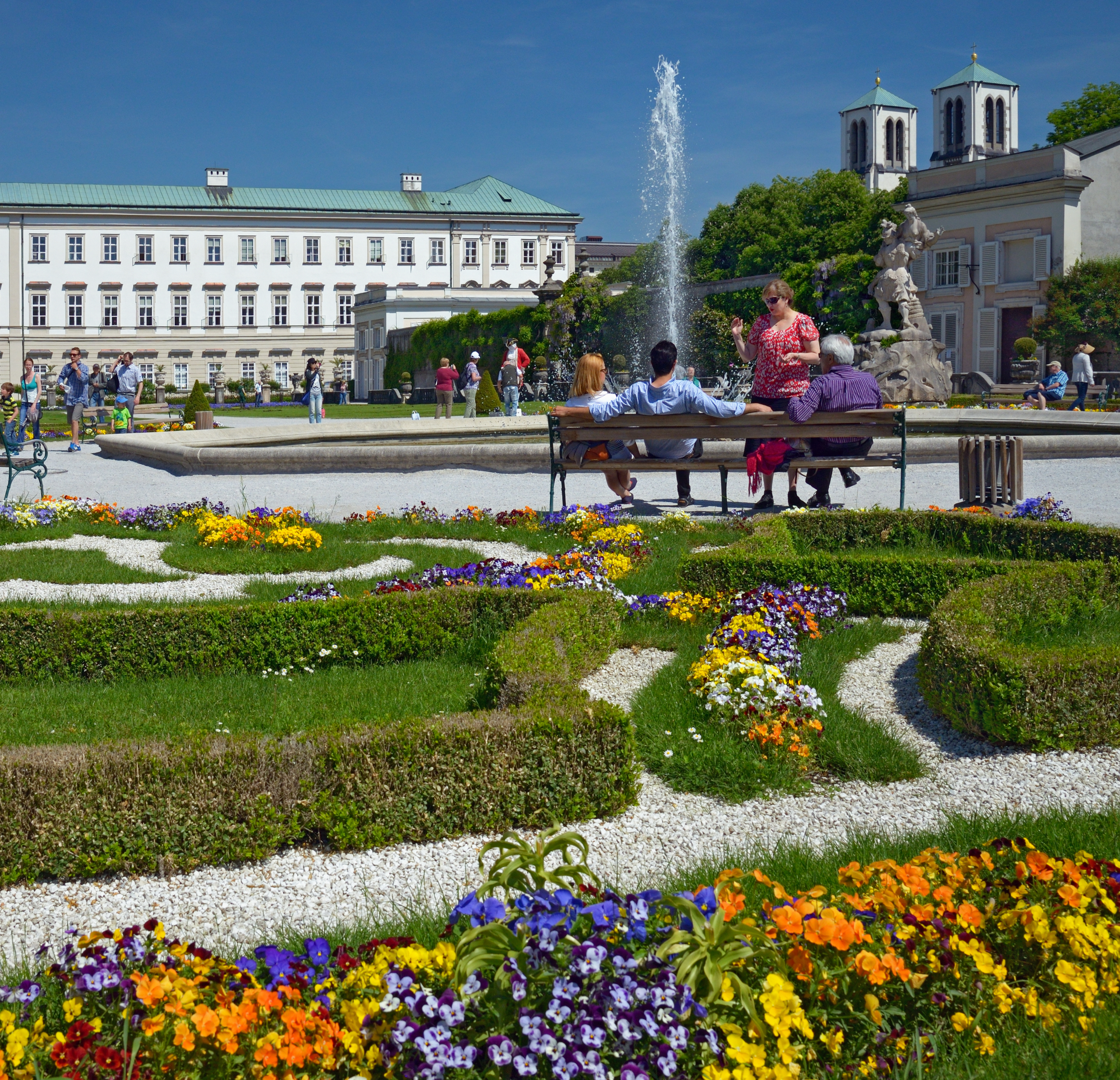 In the Mirabellgarten. Salzburg, Austria.